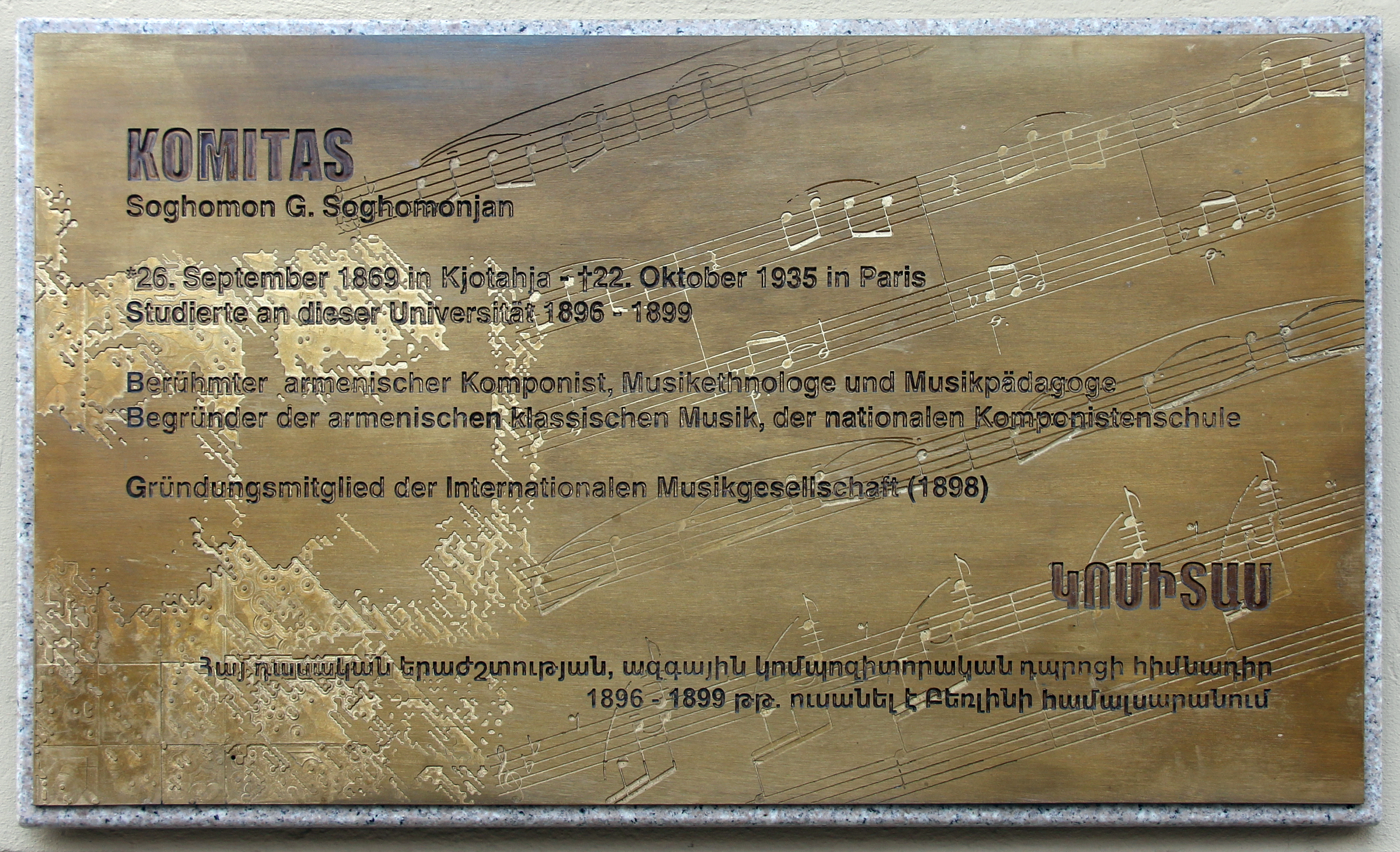 Memorial plaque, Soghomon Gevorki Soghomonjan, Am Kupfergraben 5, Berlin-Mitte, Germany